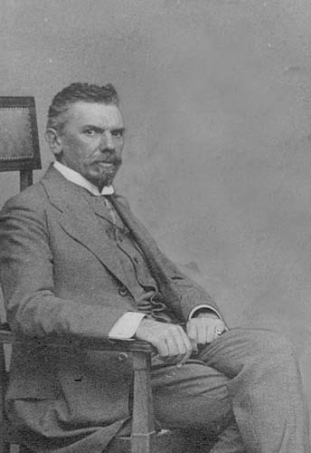 Viktor Velichkin